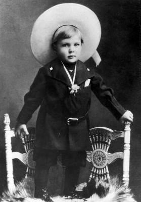 Gary Cooper, 1903